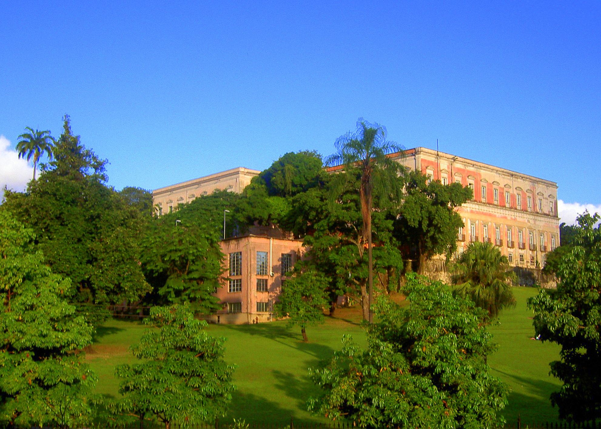 National Museum in Rio de Janeiro, Brazil